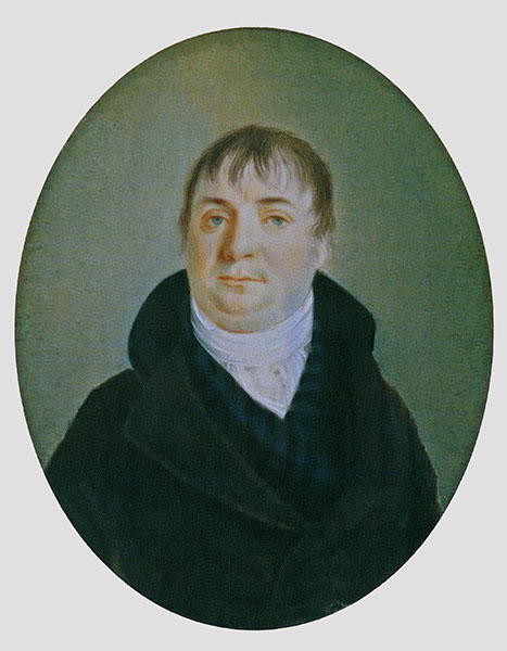 Russian writer Aleksey Fyodorovich Merzlyakov (1778-1830)